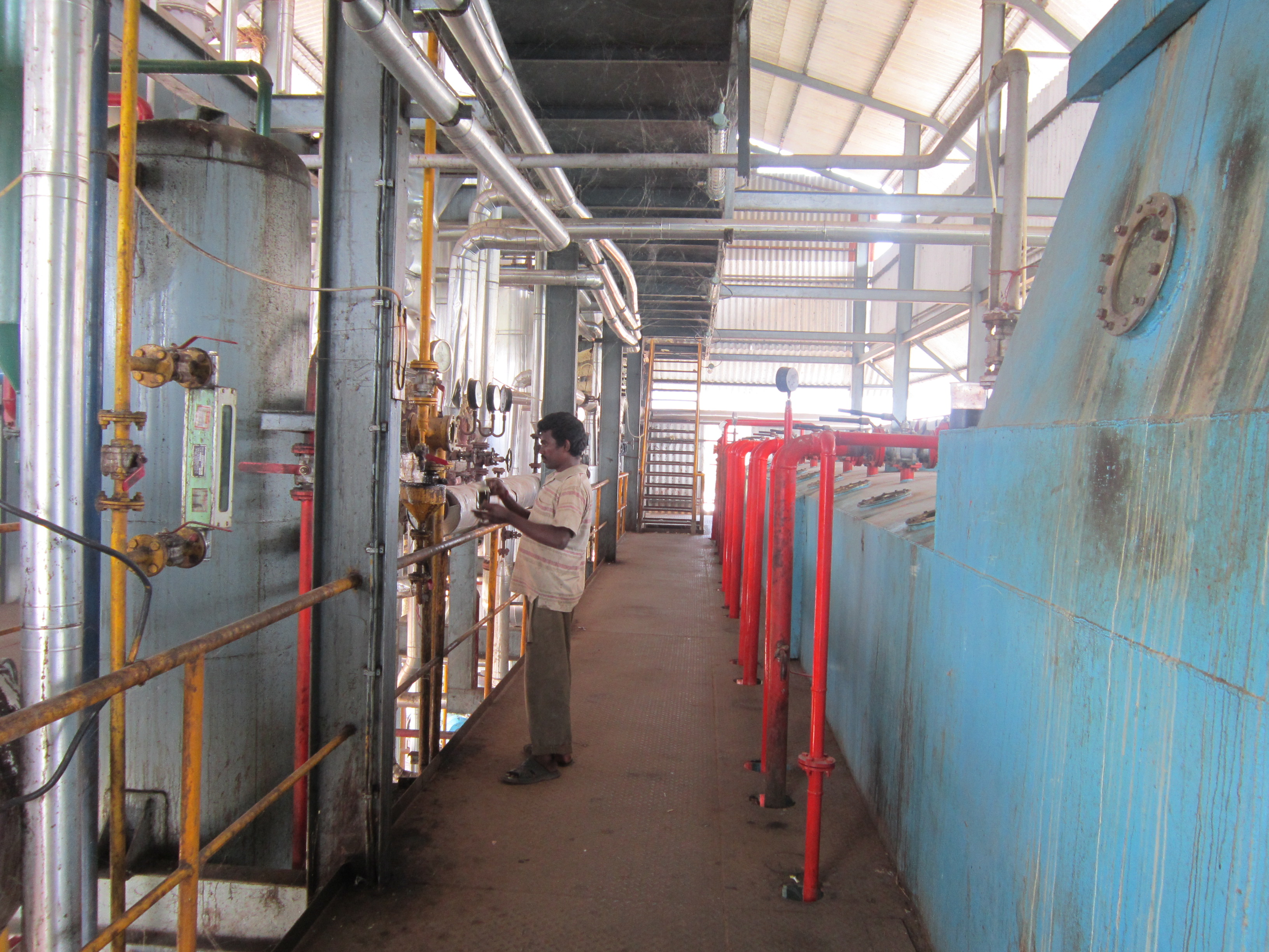 Solvent extraction plant-oils are extracted from oil cakes and Rice bran.hexane is used as solvent